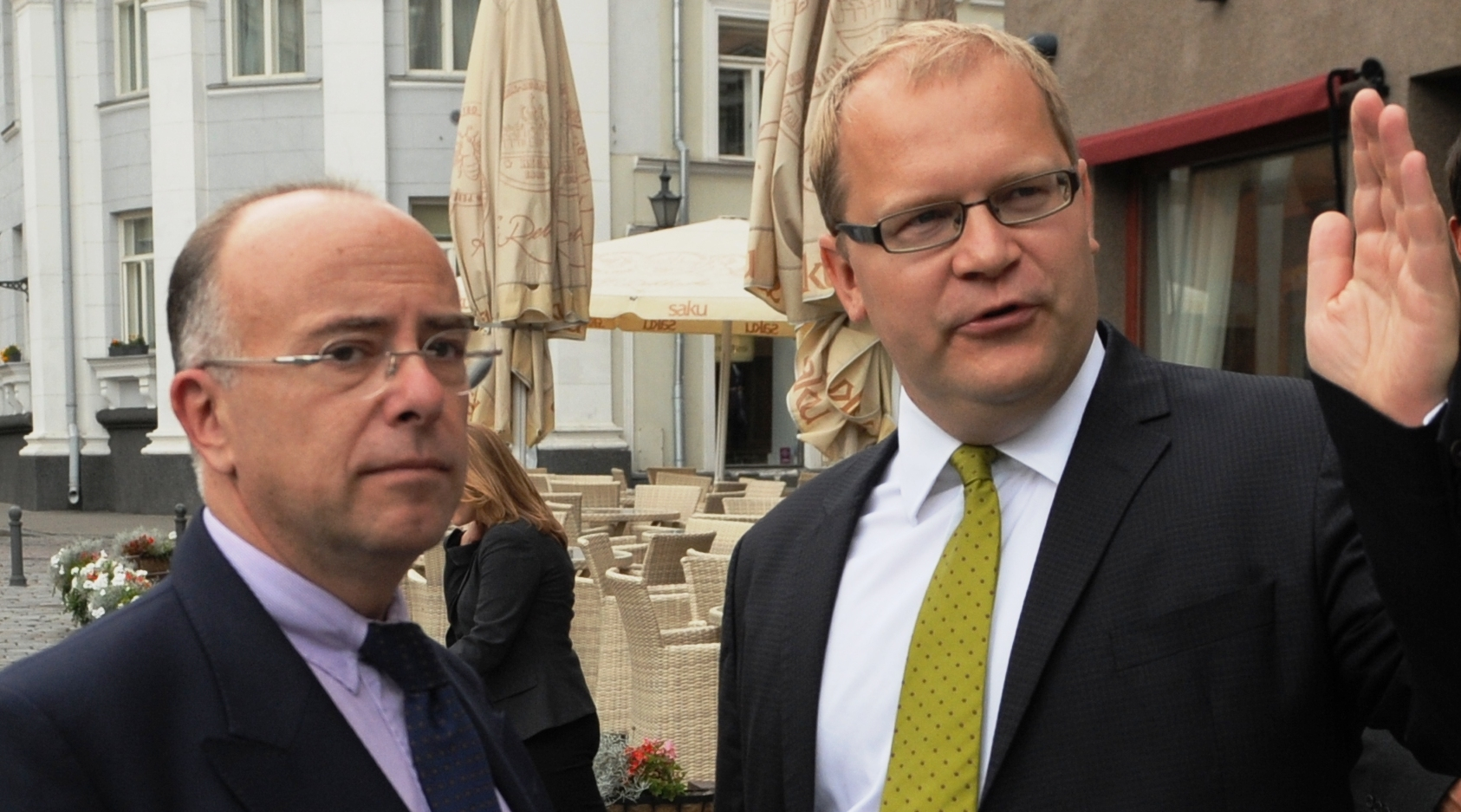 FM Urmas Paet met with French Minister of European Affairs Bernard Cazeneuve.